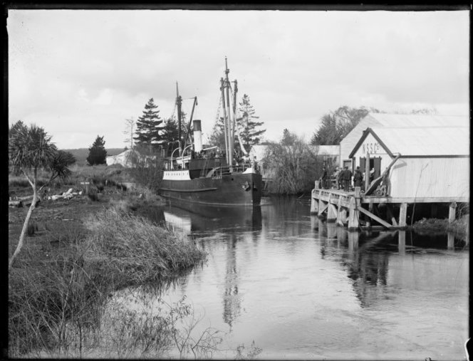 Photographs of Northland. Ref: 1/1-004930-G. Alexander Turnbull Library, Wellington, New Zealand.